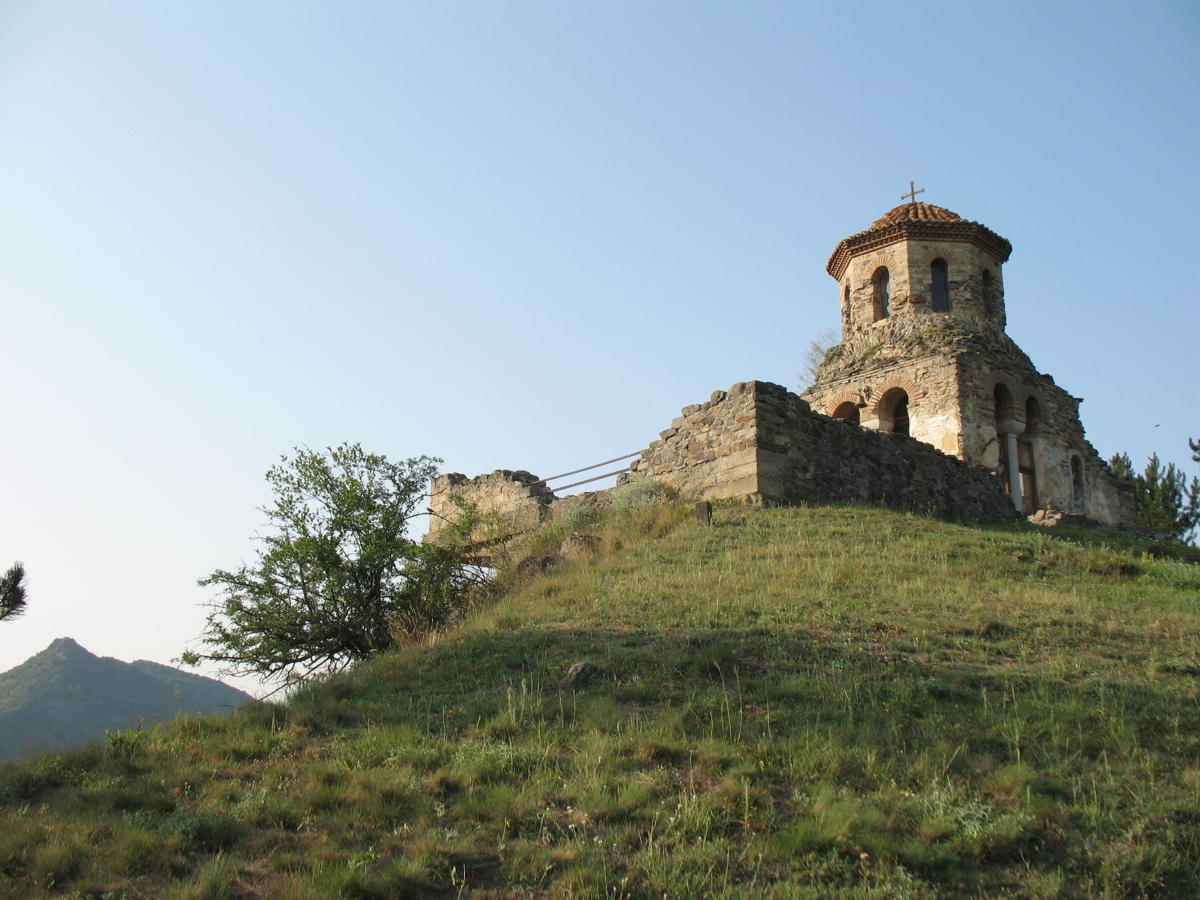 View on Stara (Old) Pavlica church,dated in pre-Nemanjić times,in Pavlica and hilltop with remains of Brvenik fortress,Raška municipality,Serbia.